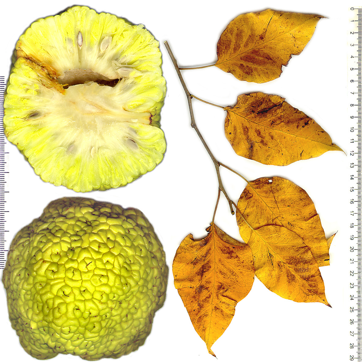 Multiple fruit of Maclura and November color of leaves.